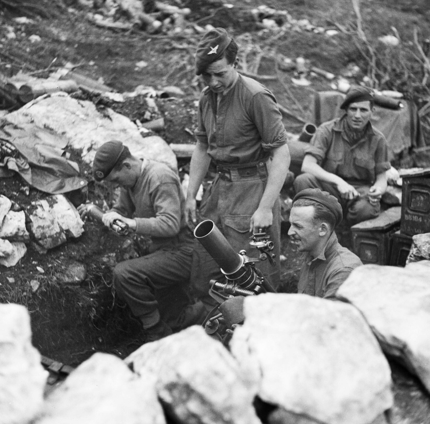 3-inch mortar crew of 4th Parachute Regiment, 2nd Parachute Brigade in action near Venafro, 30 April - 1 May 1944.